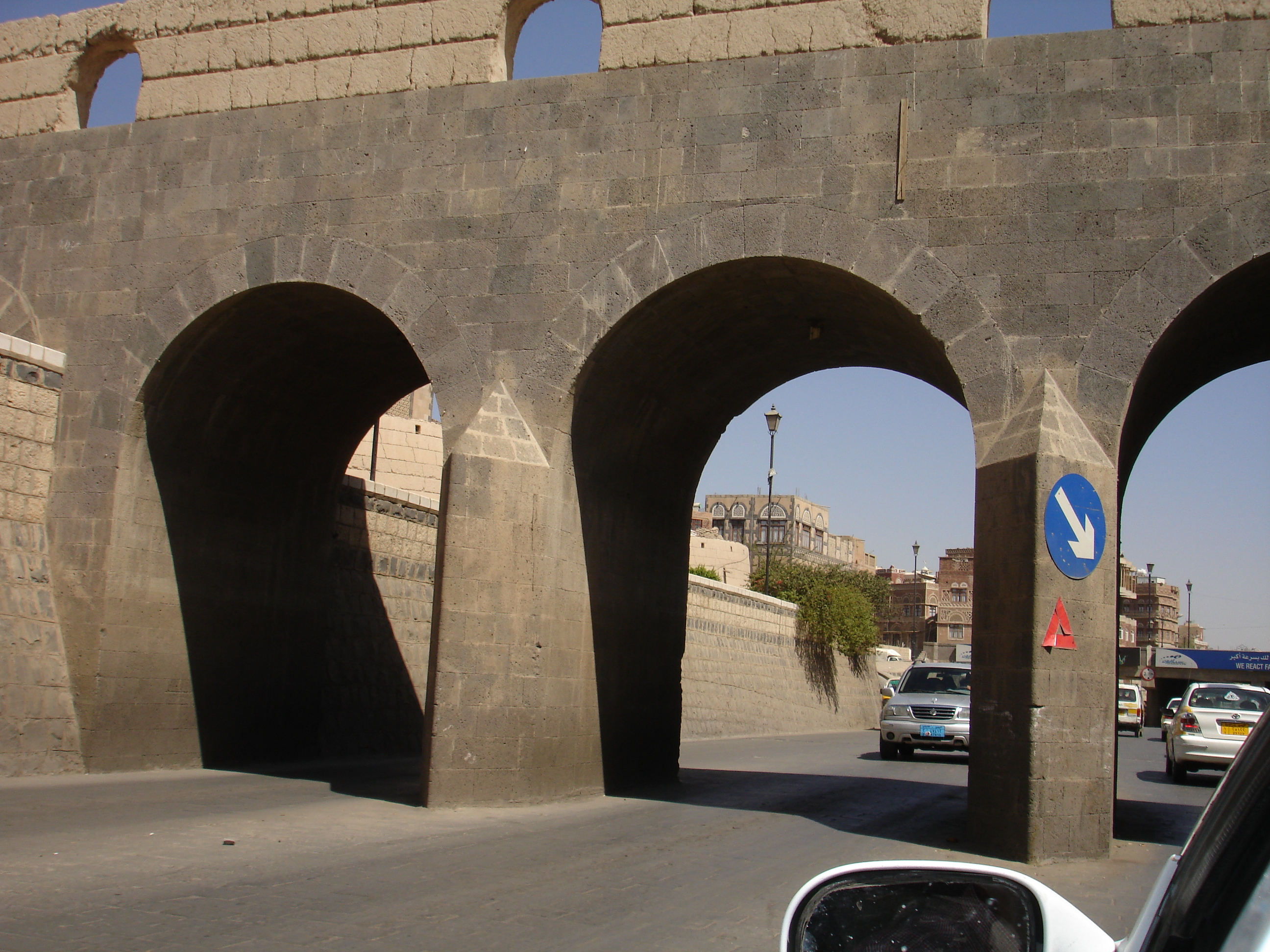 Drivable during the dry time. Flooded when it rains.